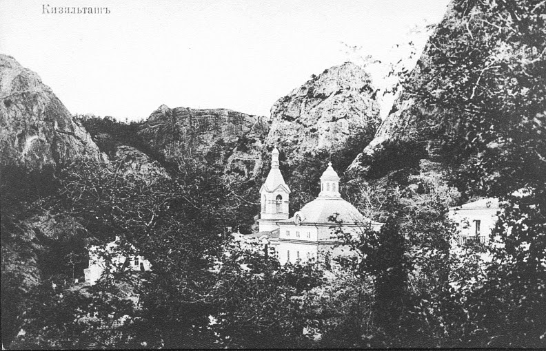 Kyzyltash. Crimea. Monastery. Begin of XX century.